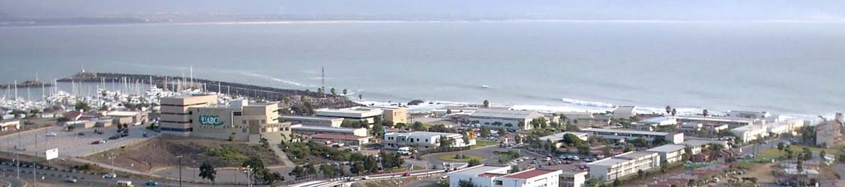 Panoramic view of UABC Ensenada Campus.